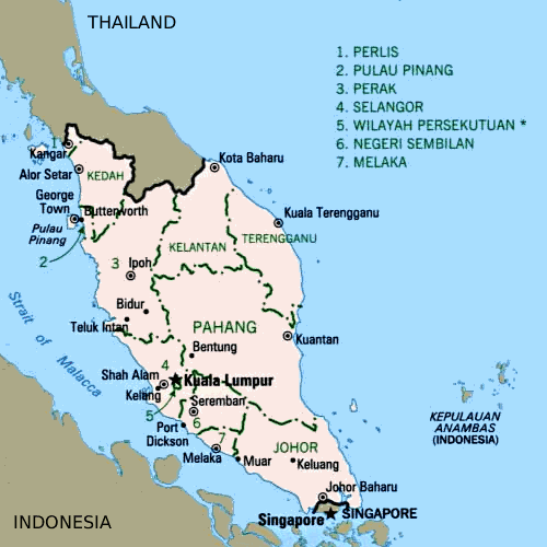 Map of Peninsular Malaysia -- by jpatokal, based on PD map by CIA [1]